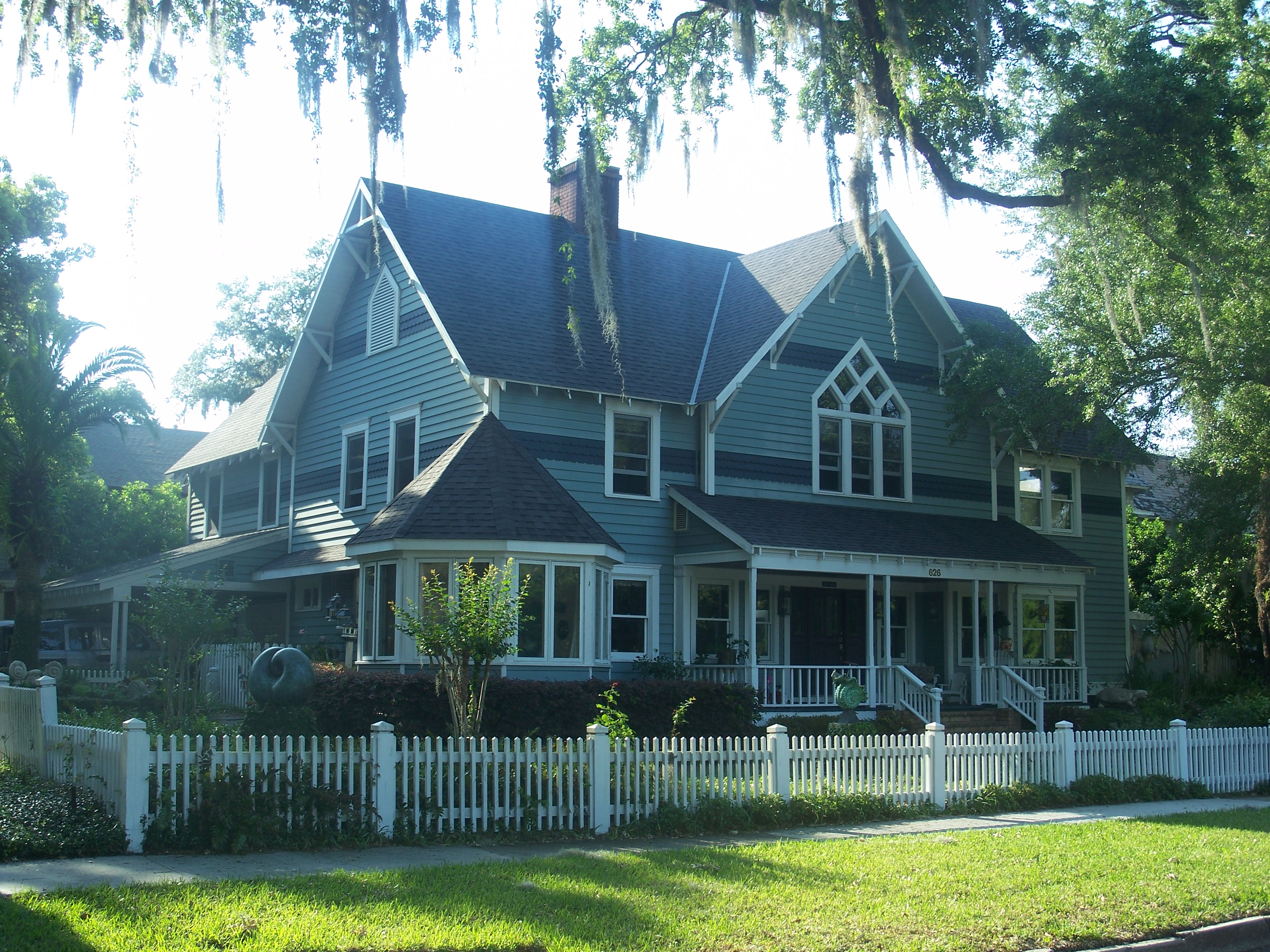 Orlando, Florida: Site of George R. Newell House (Orlando, Florida): New house built on spot and with floor plan like old house